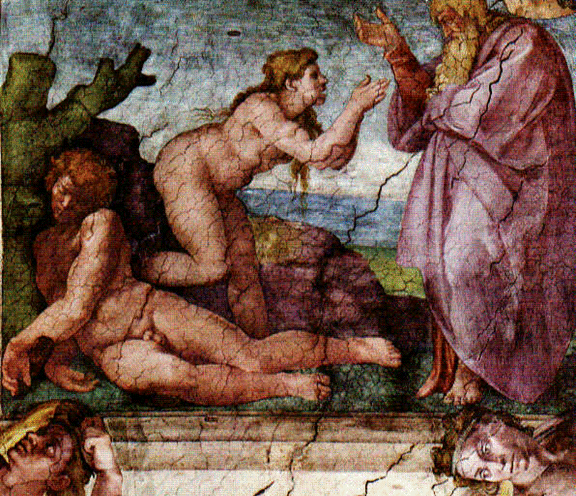 Creation of Eve